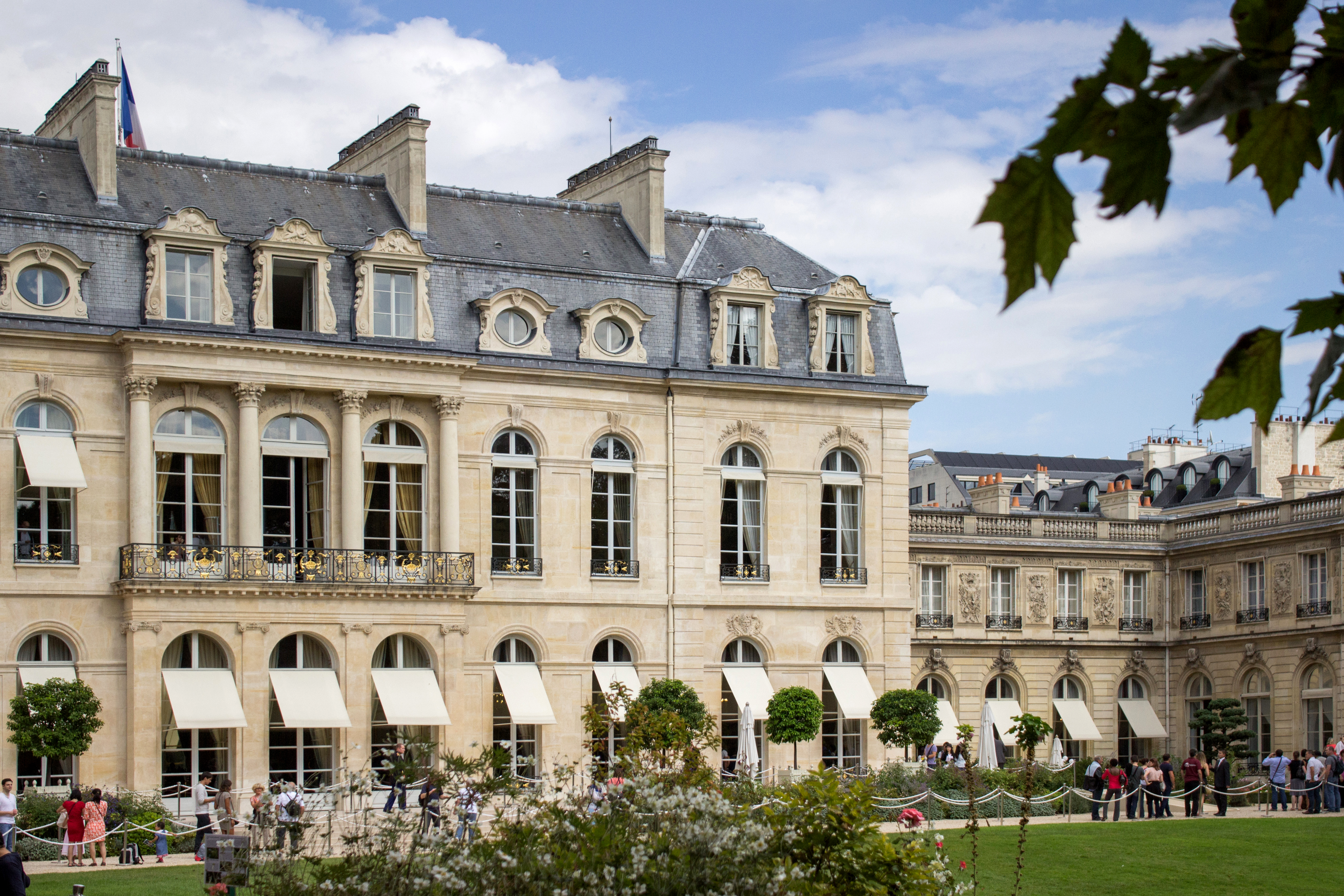 Palais de l'Élysée, Paris. European Heritage Days 2014.